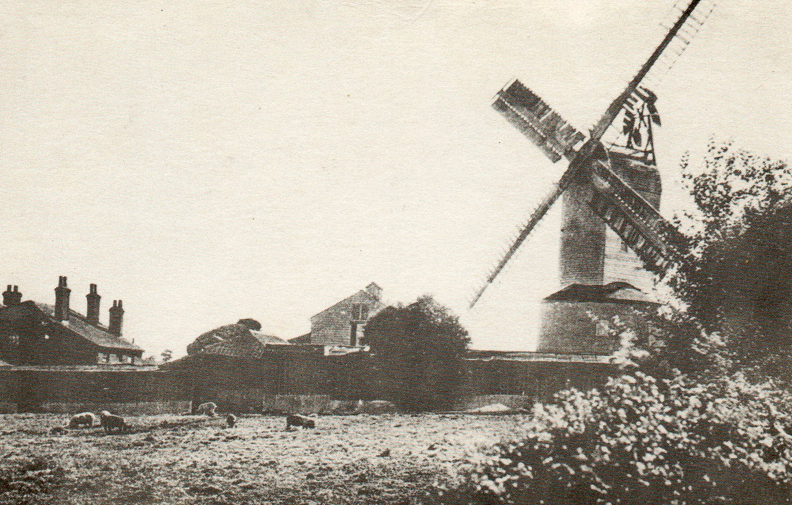 Ramsey Windmill, Essex c1920. Postcard reproduced in 1970s by Casey & Cox, Dovercourt